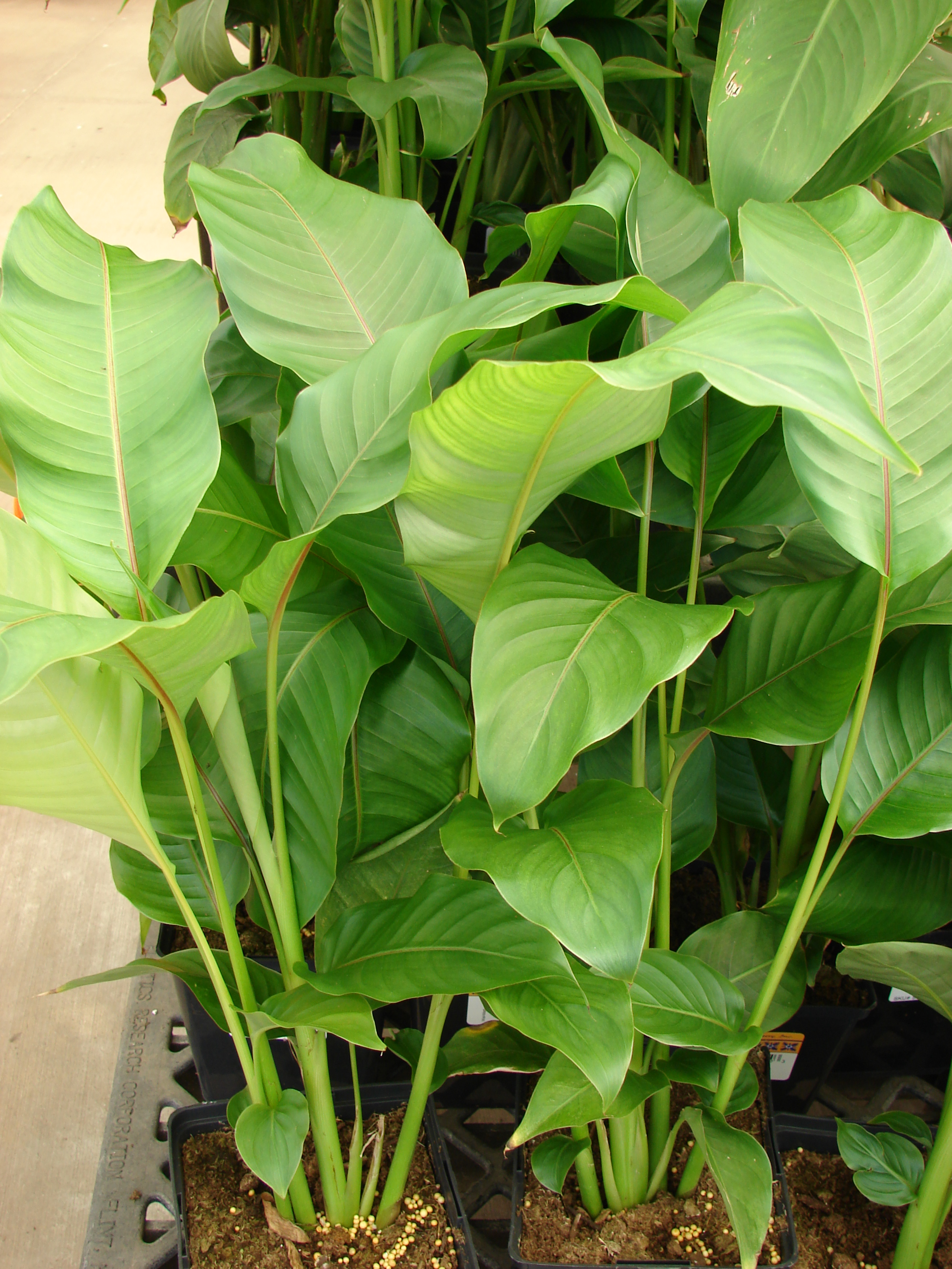 Heliconia stricta (habit). Location: Maui, Walmart Kahului